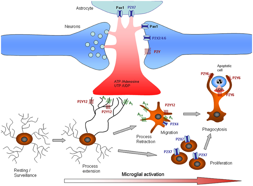 Purinergic signaling in microglia